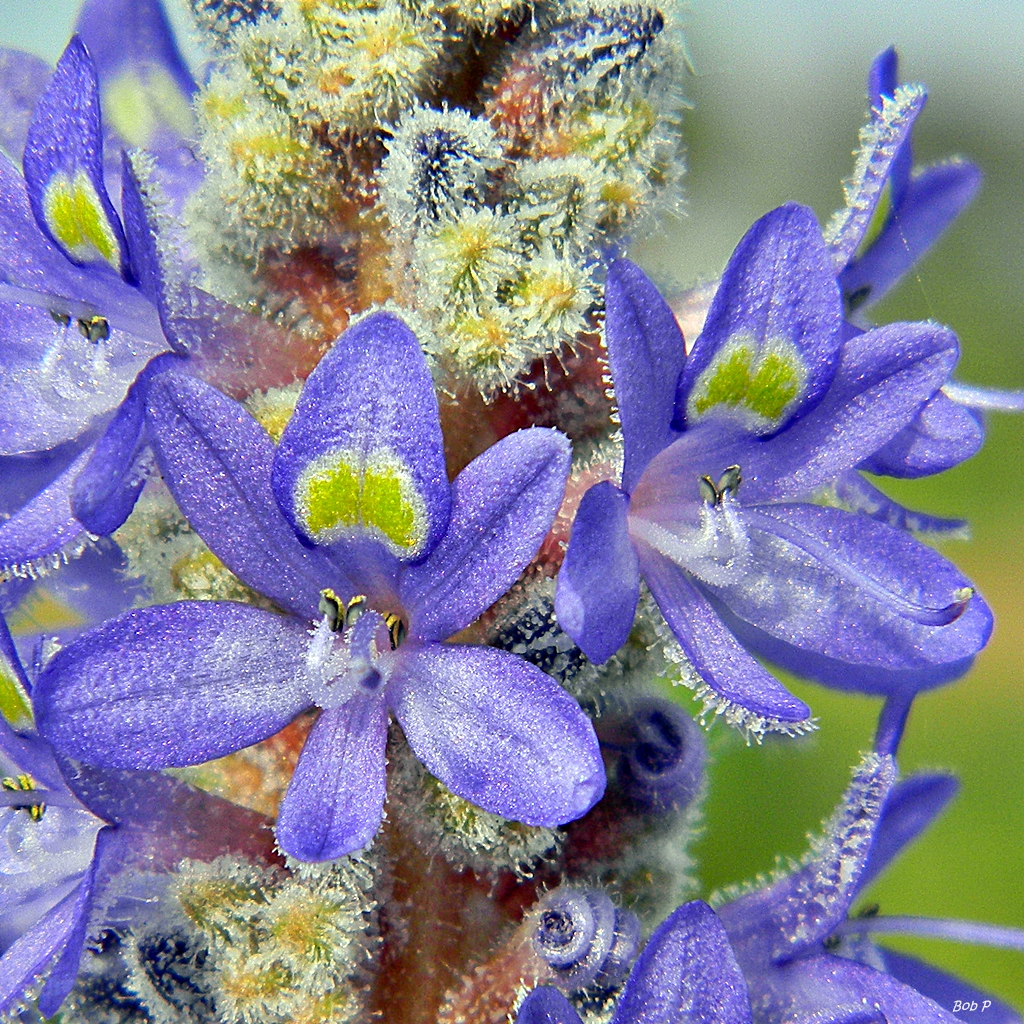 Pickerelweed blooming in a dry pond bed in the south section of Juno Dunes Natural Area, Juno Beach, Florida. This is an important nectar plant for a long list of butterflies and other insects. Wildlife eat the seeds. This species is not listed in the IRC database for Juno Dunes, but live there it does.